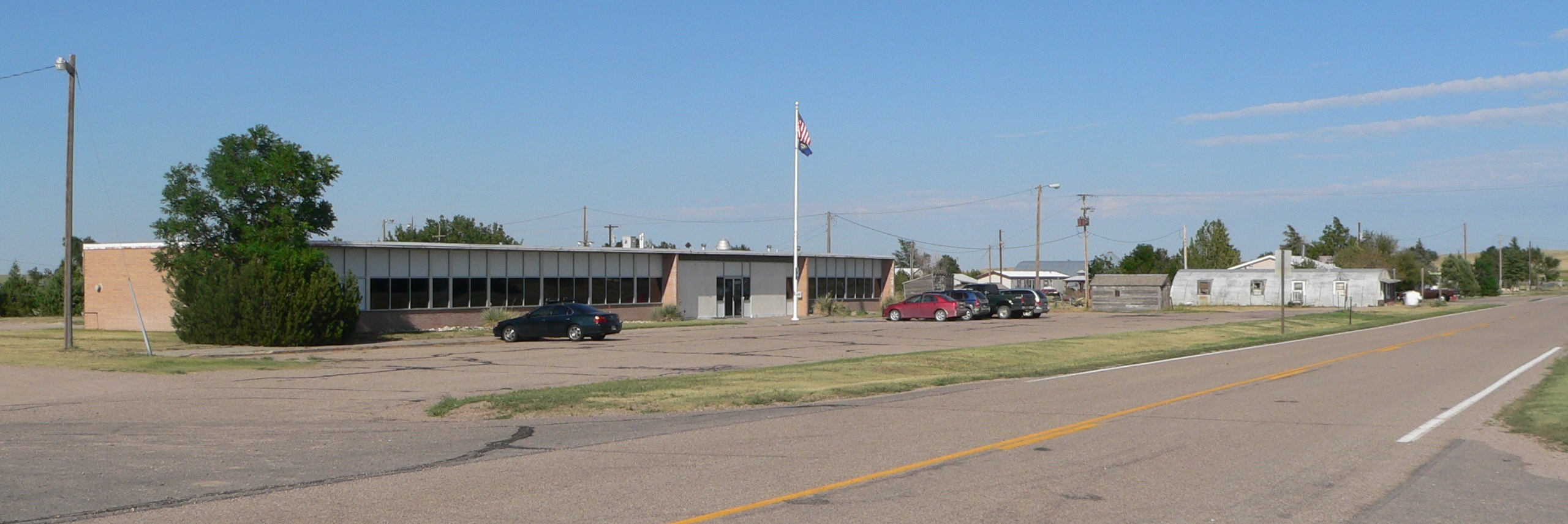 North side of Pennsylvania Avenue in Harrisburg, Nebraska; seen looking northeast from about State Street. The building in the left half of the picture is the Banner County courthouse.